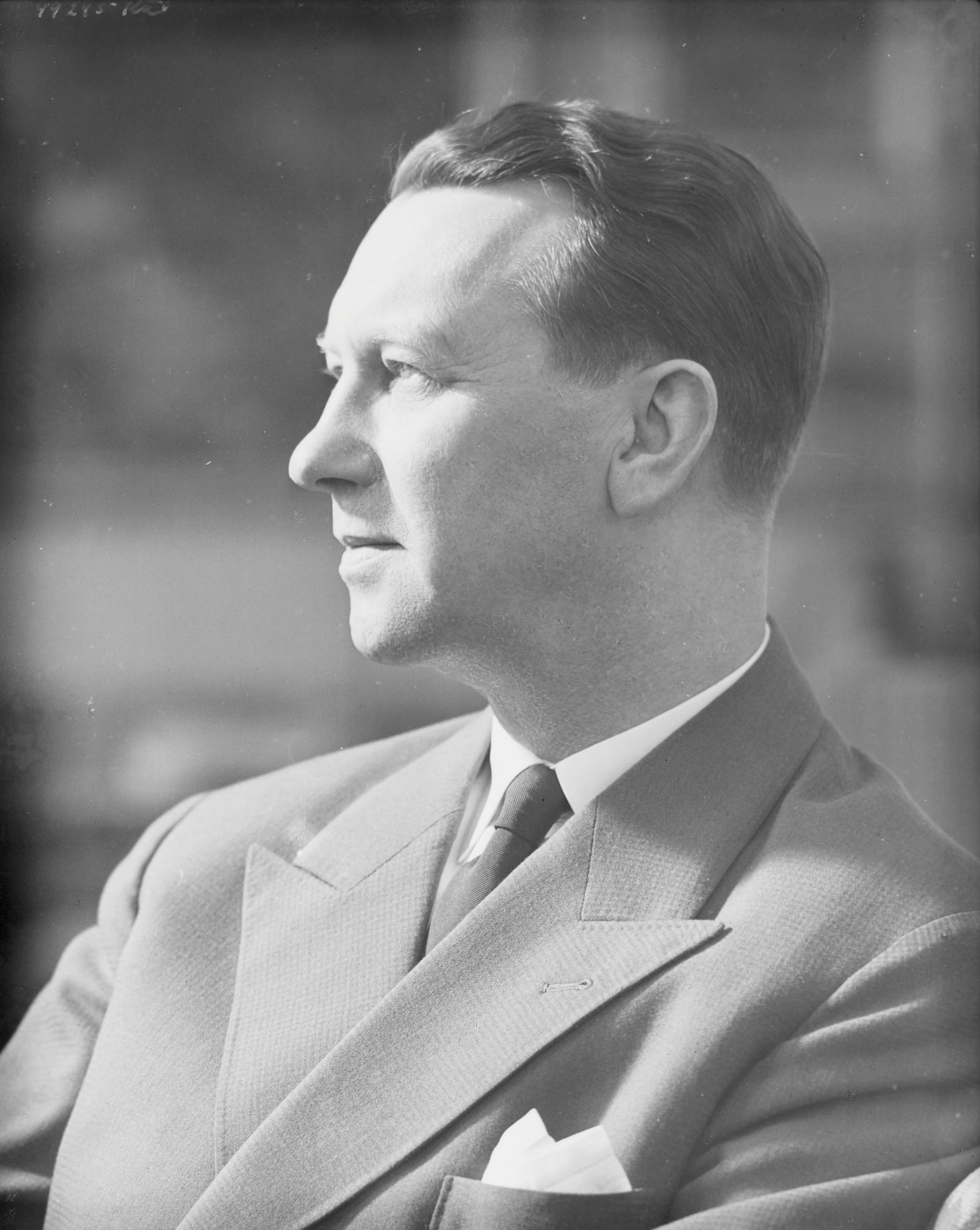 Hans Christian Svane Hansen (November 8, 1906 – February 19, 1960), often known as H. C. Hansen or simply H. C., was a social democrat and Prime Minister of Denmark from 29 January 1955 to 19 February 1960 as the head of the Cabinet of H. C. Hansen I and II. Before becoming Prime Minister, H. C. Hansen also served as Finance Minister in the Cabinet of Hans Hedtoft I and Foreign Minister in the Cabinet of Hans Hedtoft II.